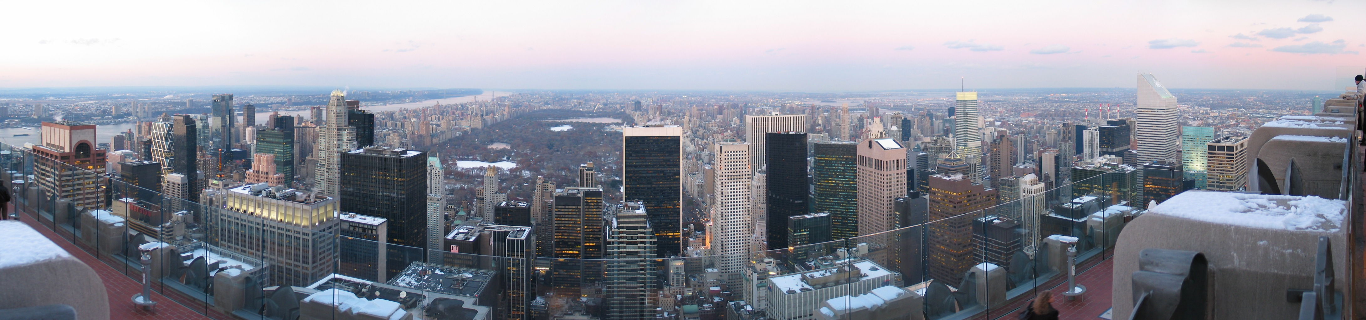 Looking north across Central park from Top of the Rock.